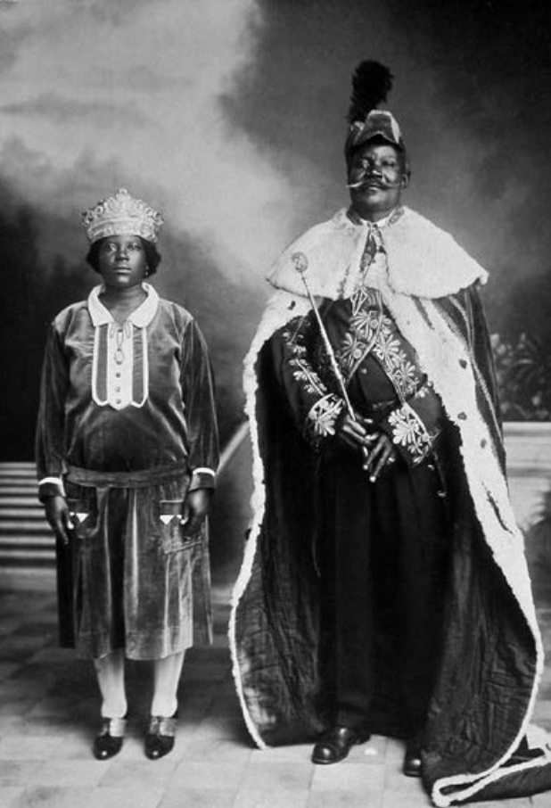 Peter VII and Elizabeth, King and Queen of Kongo, in 1934; photograph in the collection of the Lisbon Geographic Society.